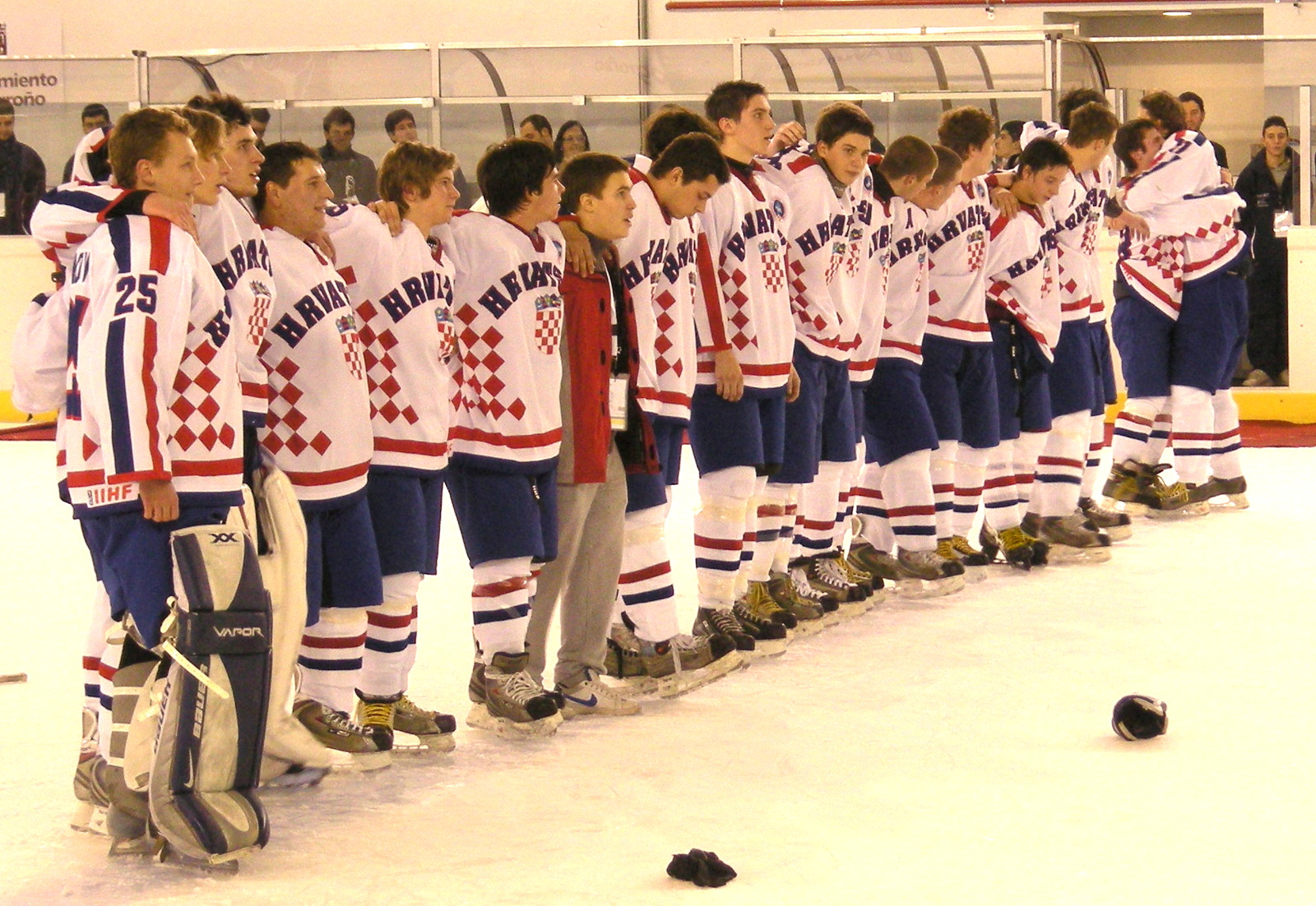 Croatia team, champion of the Group B of the 2009 IIHF World U20 Championship Division II in the C.D.M. Lobete in Logroño, La Rioja, Spain.